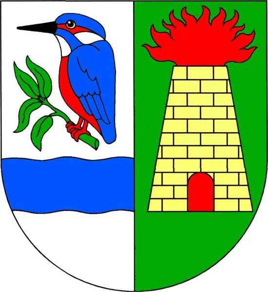 Municipal coat of arms of Hýskov village, Beroun District, Czech Republic.